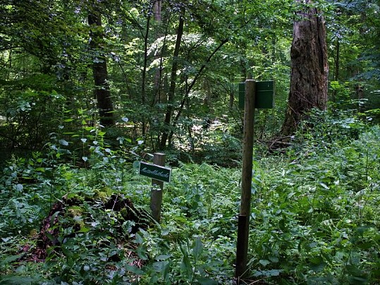 Remainder of the first copper beech near Sondershausen/Germany